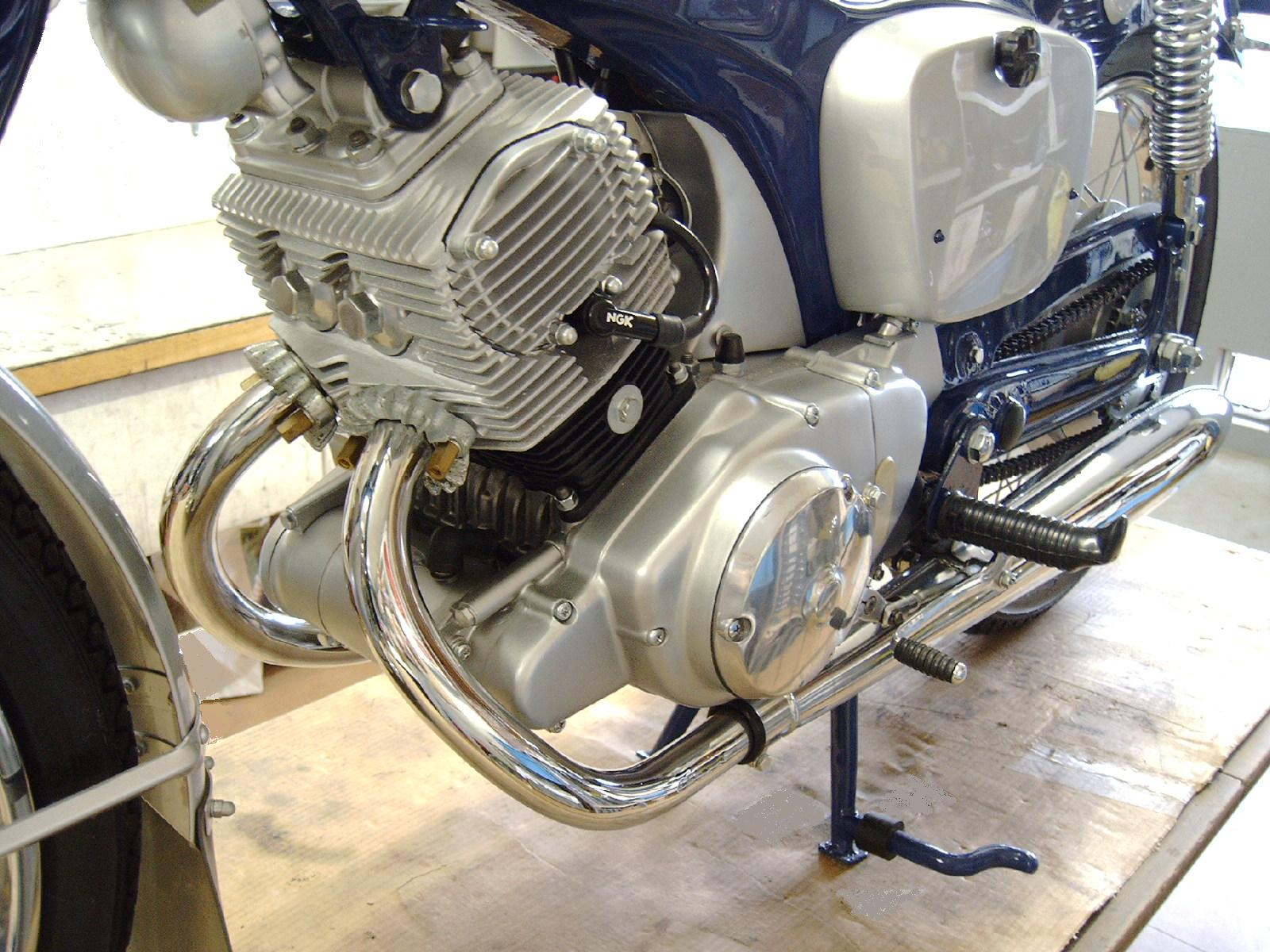 Honda_CB92_engine_1961